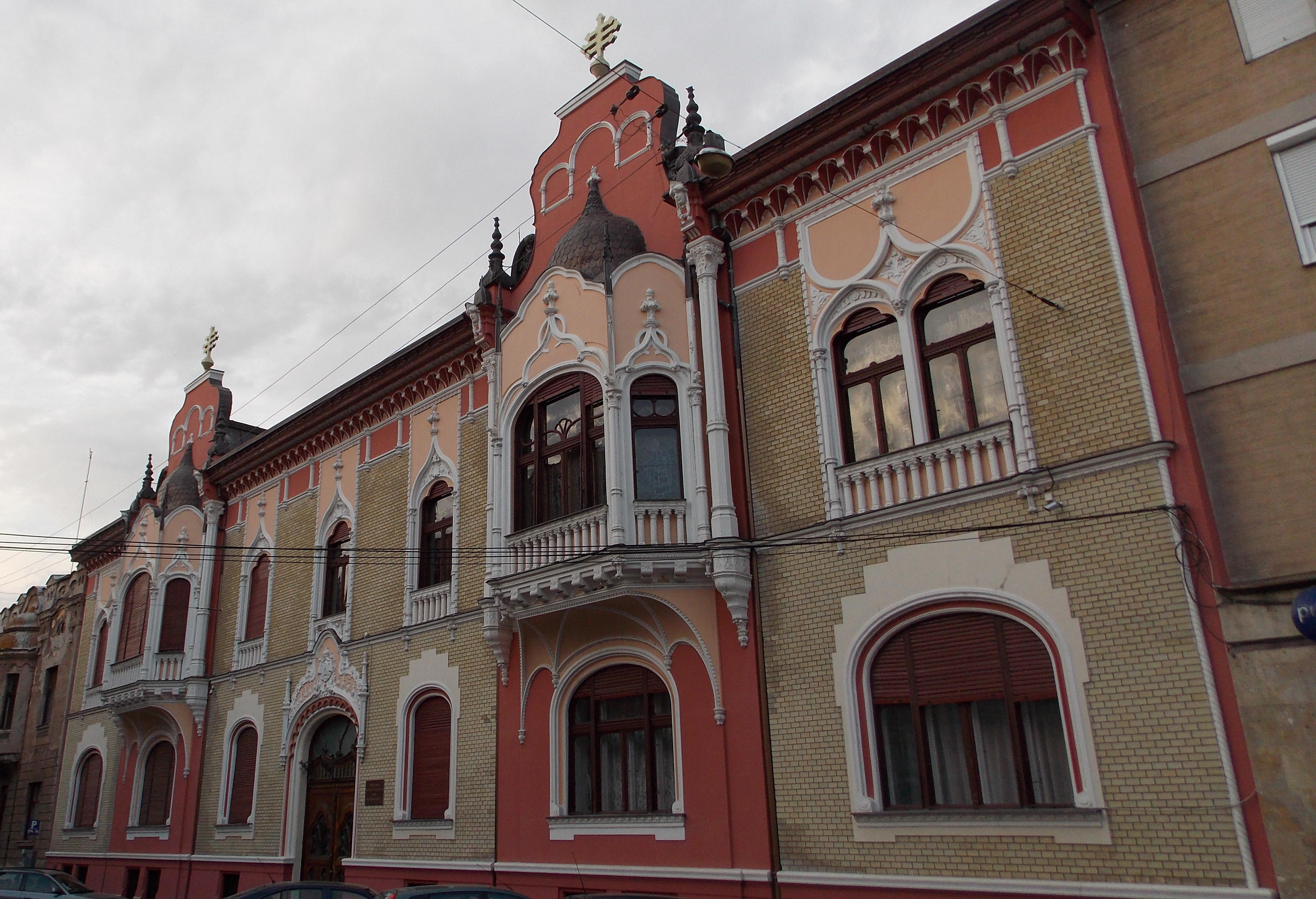 Romanian Orthodox Bishopric (Rimanoczy K. junior Palace) - Oradea